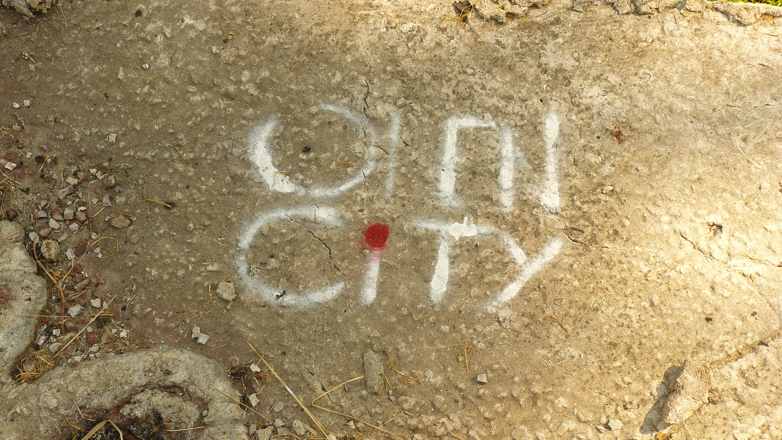 Logo of new artistic festival "OpenCity", originated in Lublin, painted on the stone.